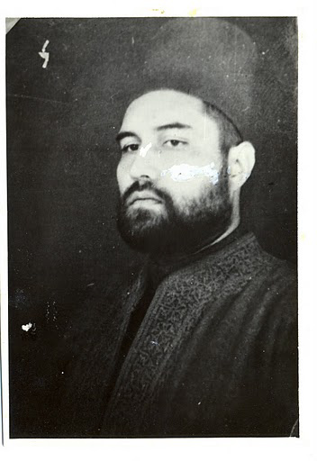 Single picture of Bahadur Yar Jung